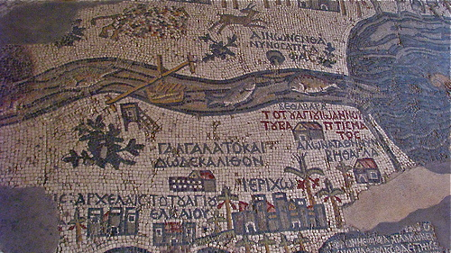 Madaba map showing fish in Jordan River (Dale Gillard)